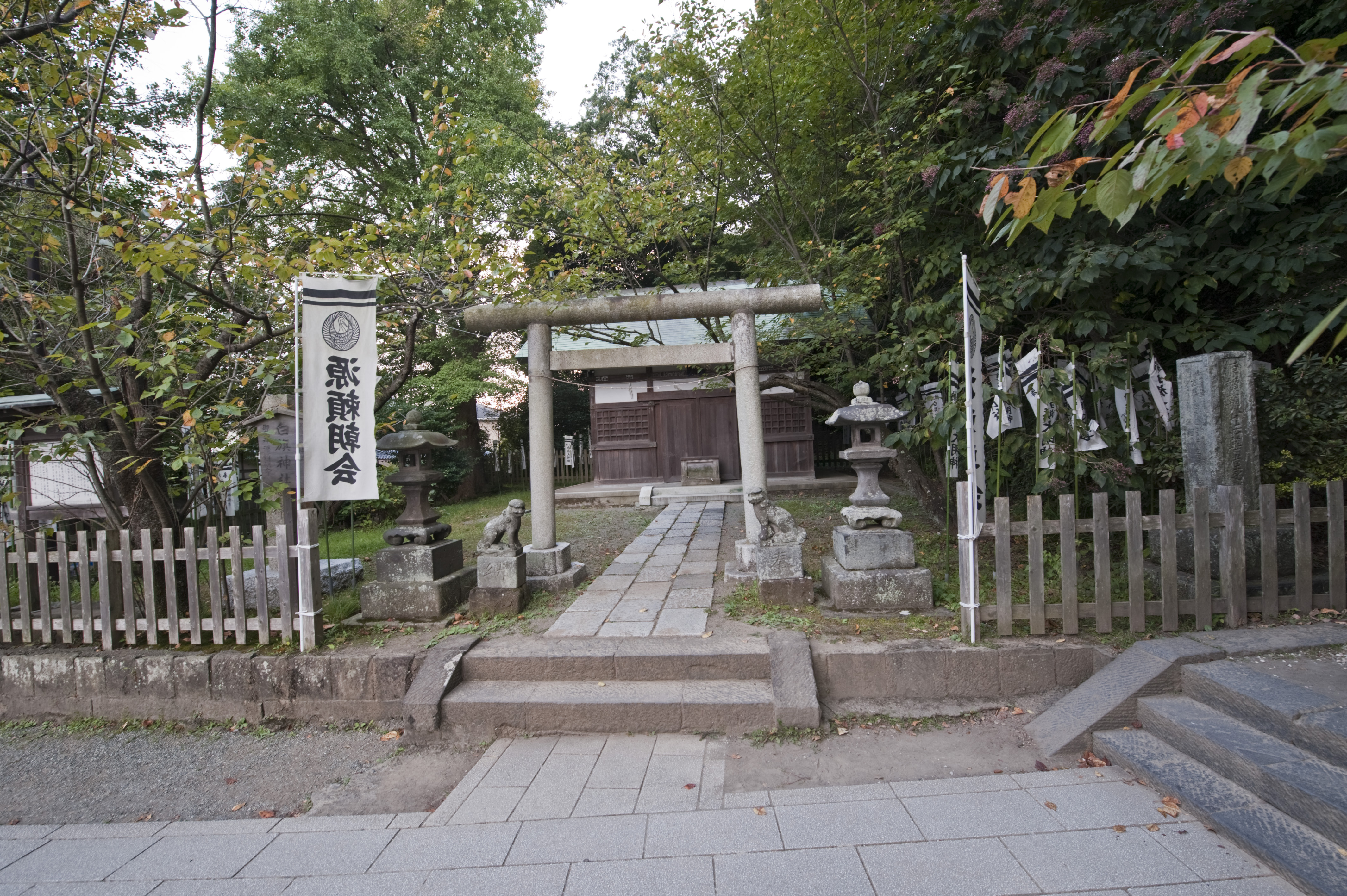 Shirahata Jinja in Kamakura